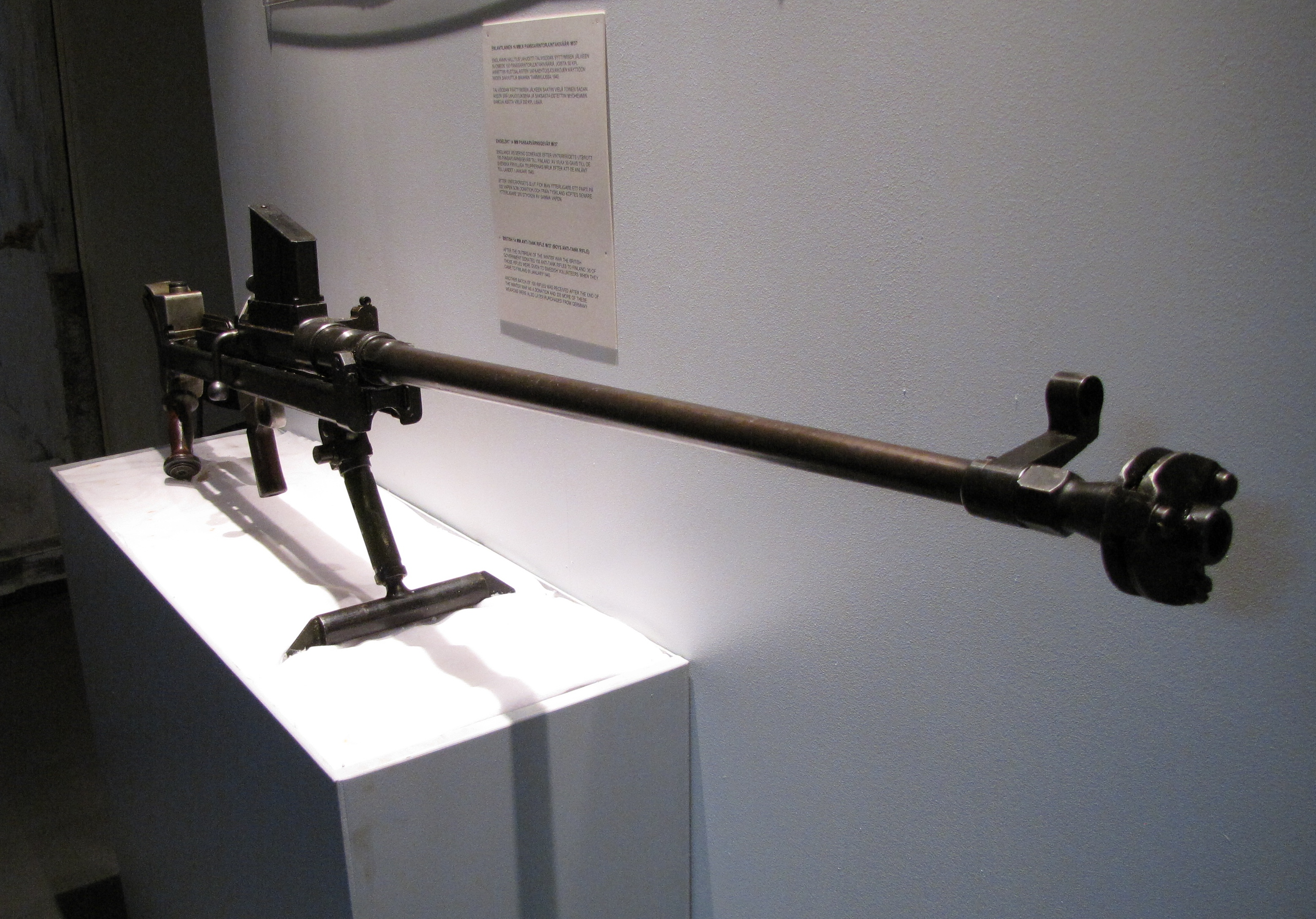 Boys anti-tank rifle. Photographed in the "Winter War - 70 years" exhibition in the Military Museum of Finland.